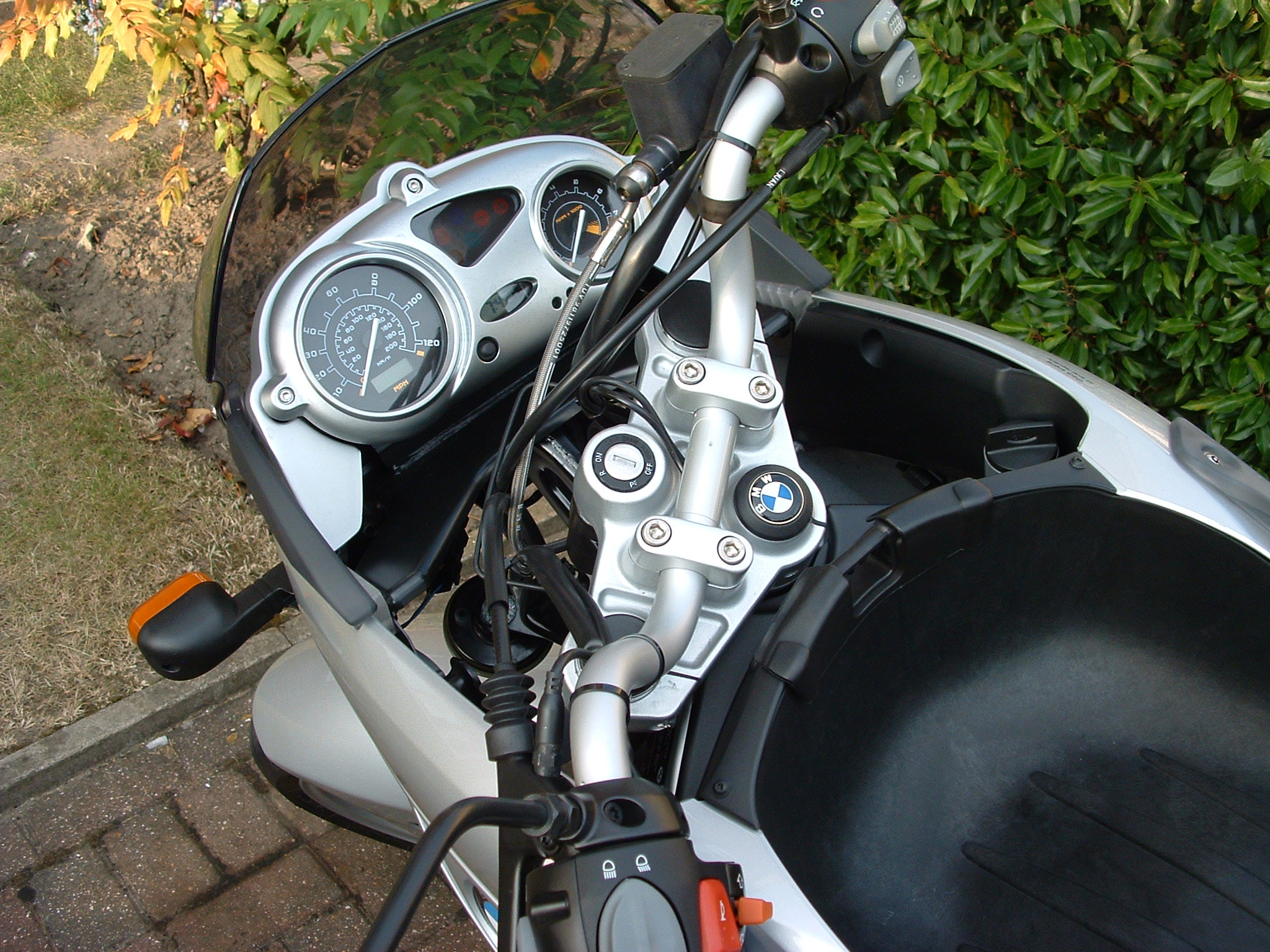 The cockpit of a BMW F650CS Scarver motorcycle showing the storage area in the false tank